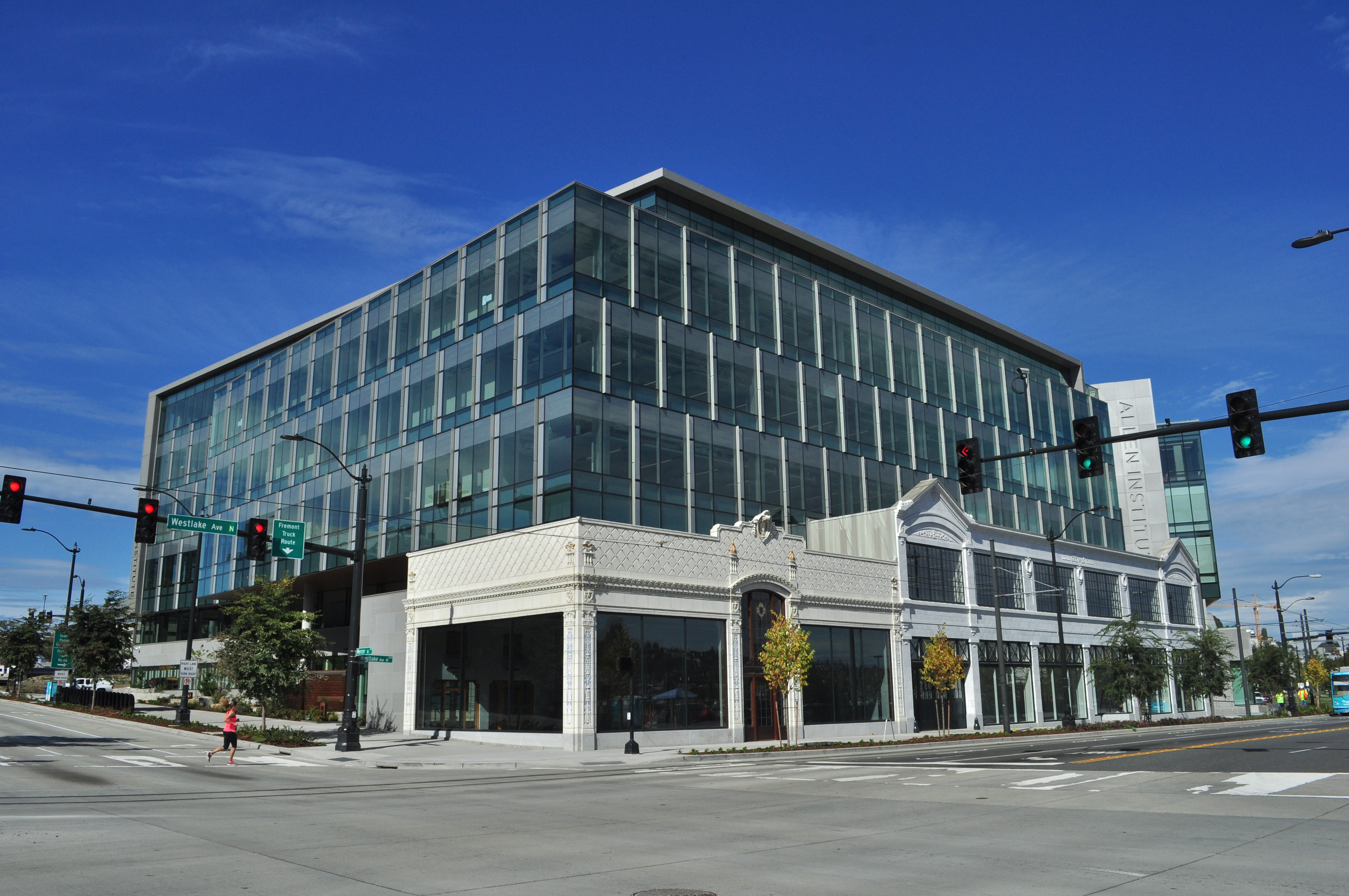 Allen Institute for Brain Science Building, Seattle, Washington, U.S. The building incorporates elements of the Ford McKay Building (Warren H. Milner, 1922) and Pacific McKay Building (Harlan Thomas and Clyde Grainger, 1925). One of the last remnants of Seattle's former "auto row", the exteriors of these buildings were given city landmark status in 2007; the terracotta was stripped, certain interior elements were salvaged and the buildings were demolished in 2009. Those stripped and salvaged elements were integrated into the Allen Institute for Brain Science Building (completed 2015).